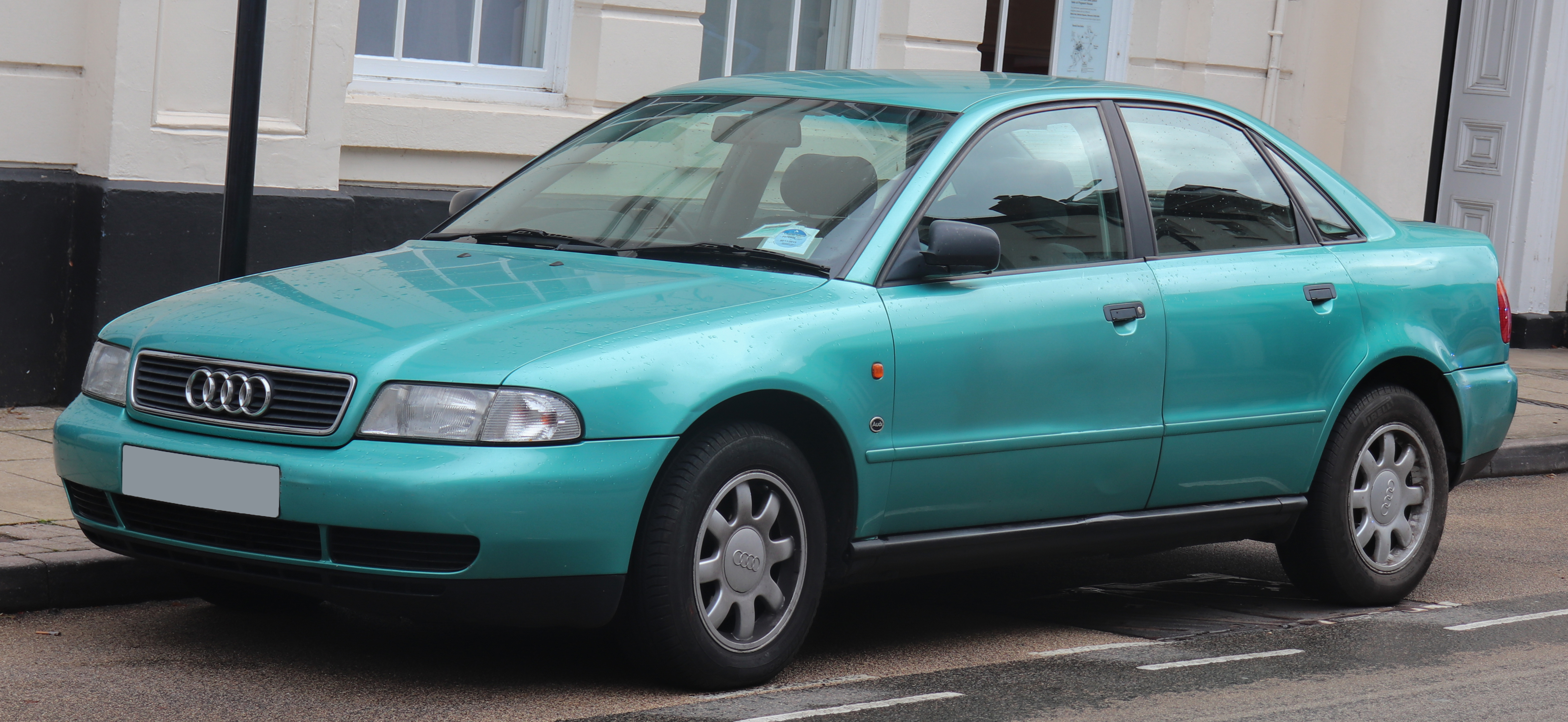 1996 Audi A4 SE 1.8 Front Taken in Warwick